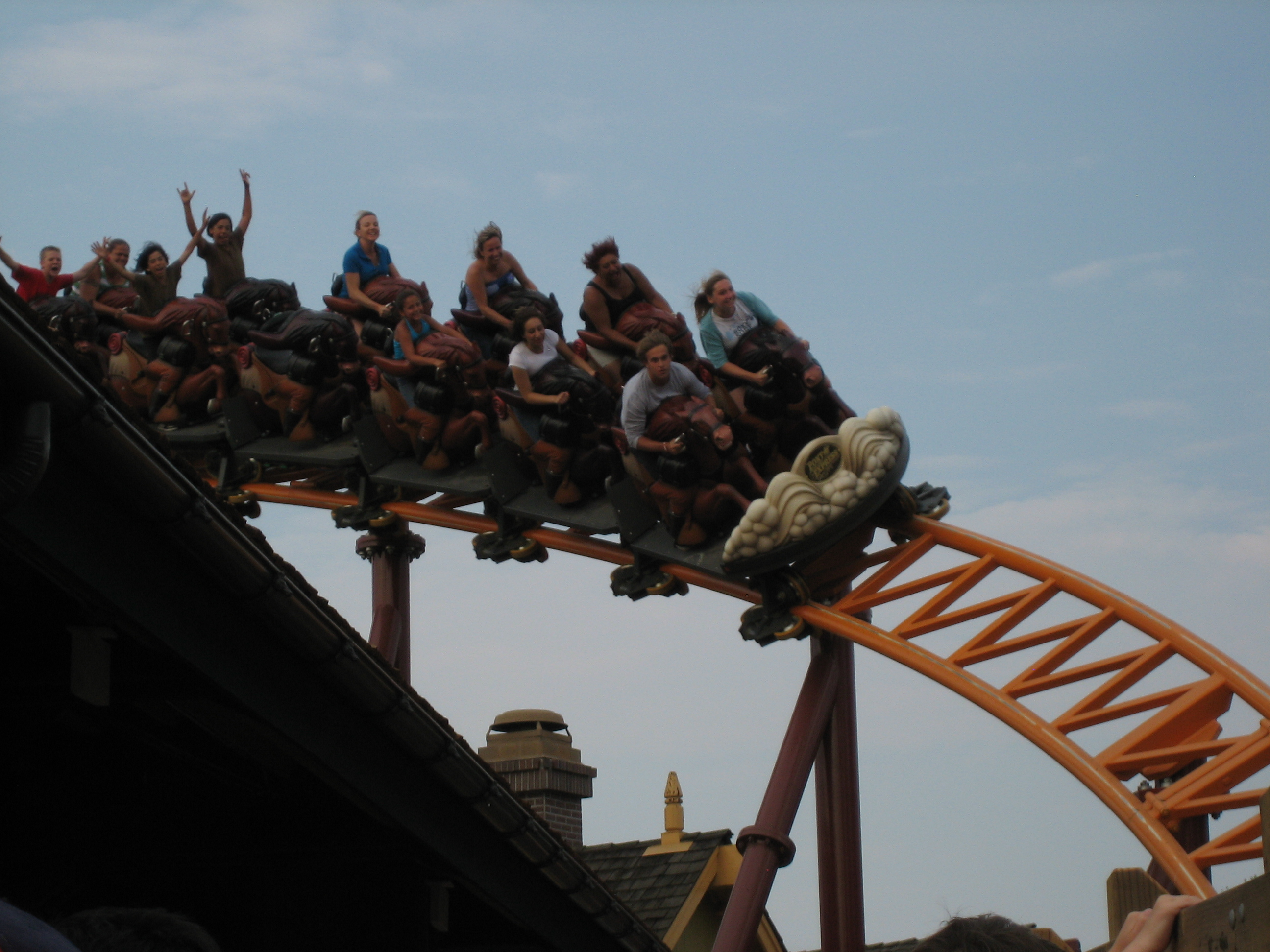 July 11th 193/366 On the one hand, I would have taken great photos at Knott's Berry Farm if I had taken my DSLR. On the other, who wants to be lugging a great big camera around when there's rollercoasters to be ridden?